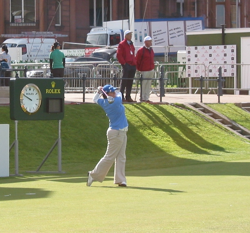 Becky Breweton tees off on the first hole at the Old Course St. Andrews during the Womens' British Open 2007